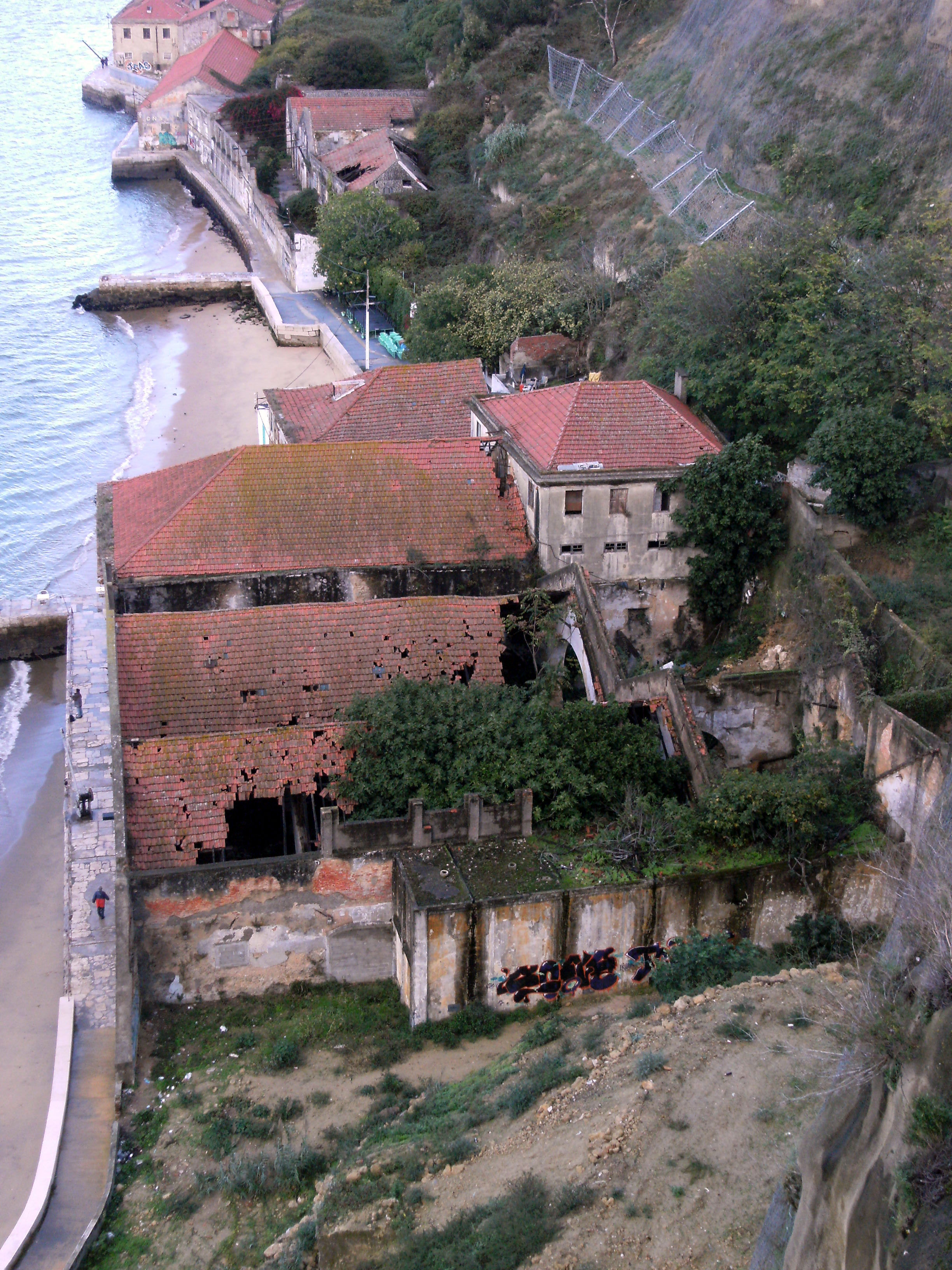 Almada & Cacilhas; 2012-10-26